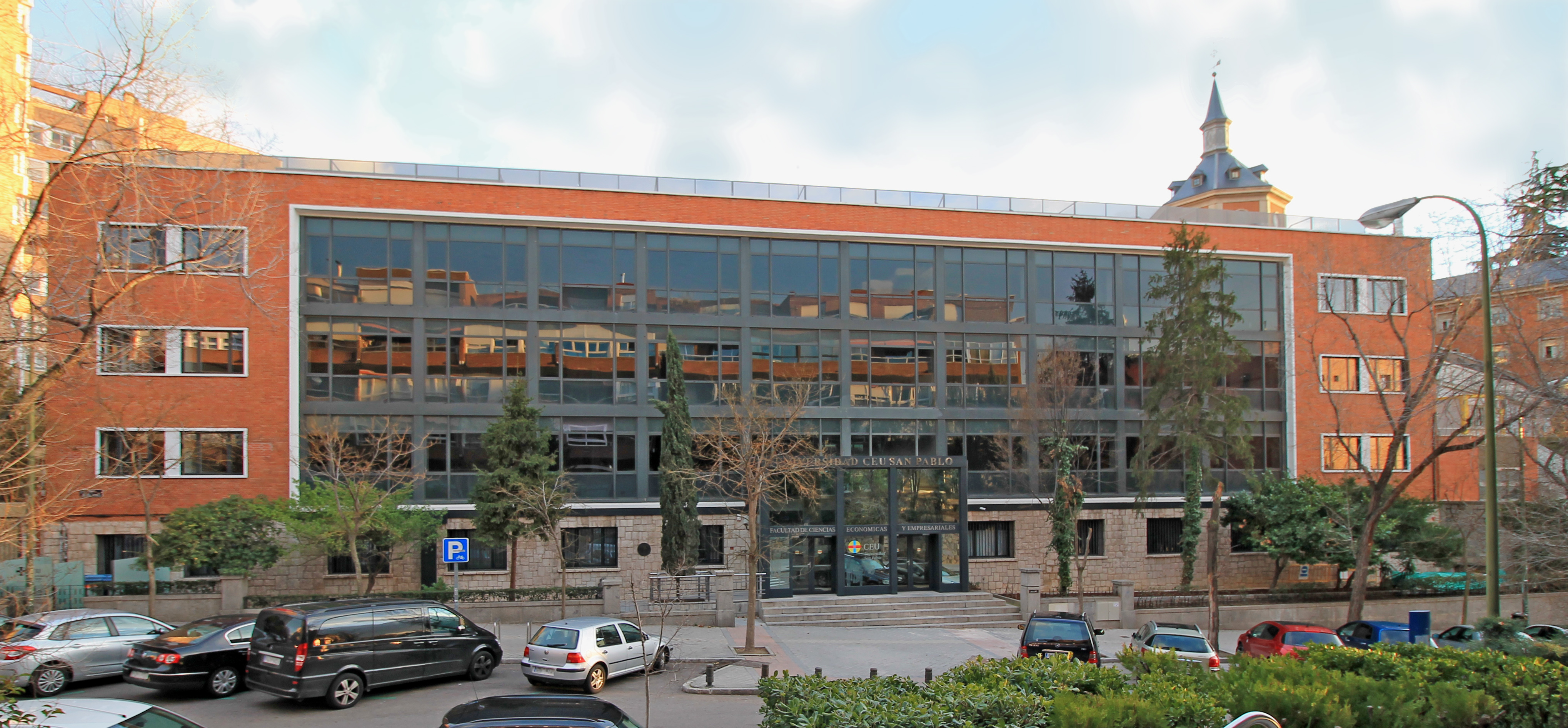 The Faculty of Economical Science and Business Management of CEU San Pablo University in Madrid (Spain).